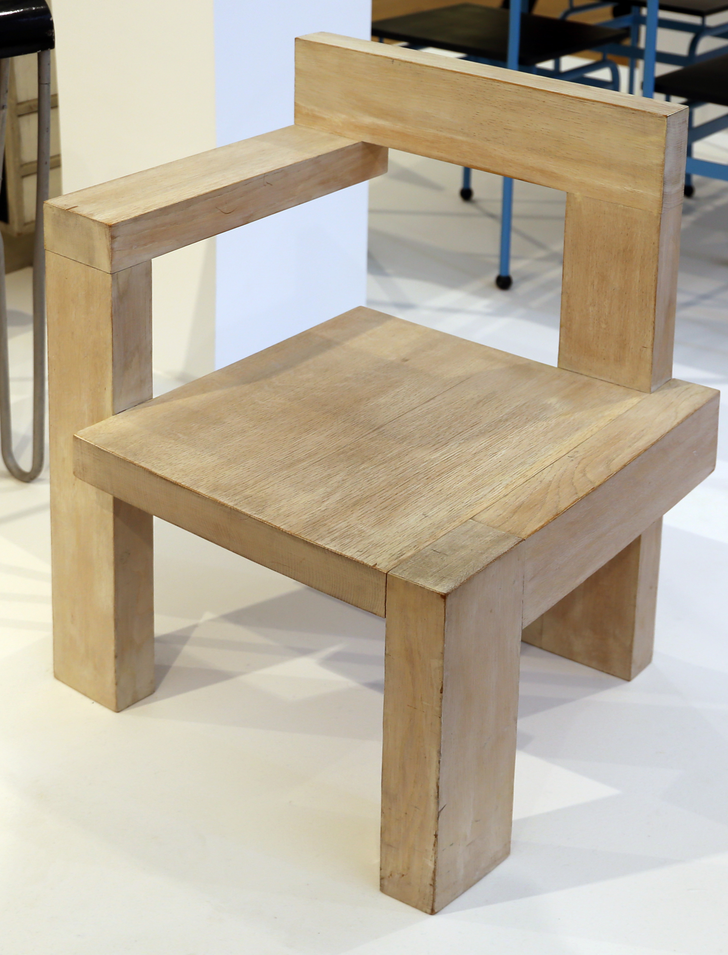 Furniture in the Gemeentemuseum Den Haag